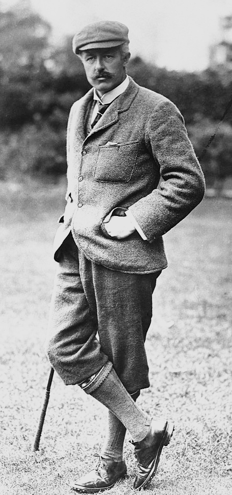 Horace Hutchinson of Great Britain, the father of golf instruction and the first to write a manual on how to play the game, circa 1898.